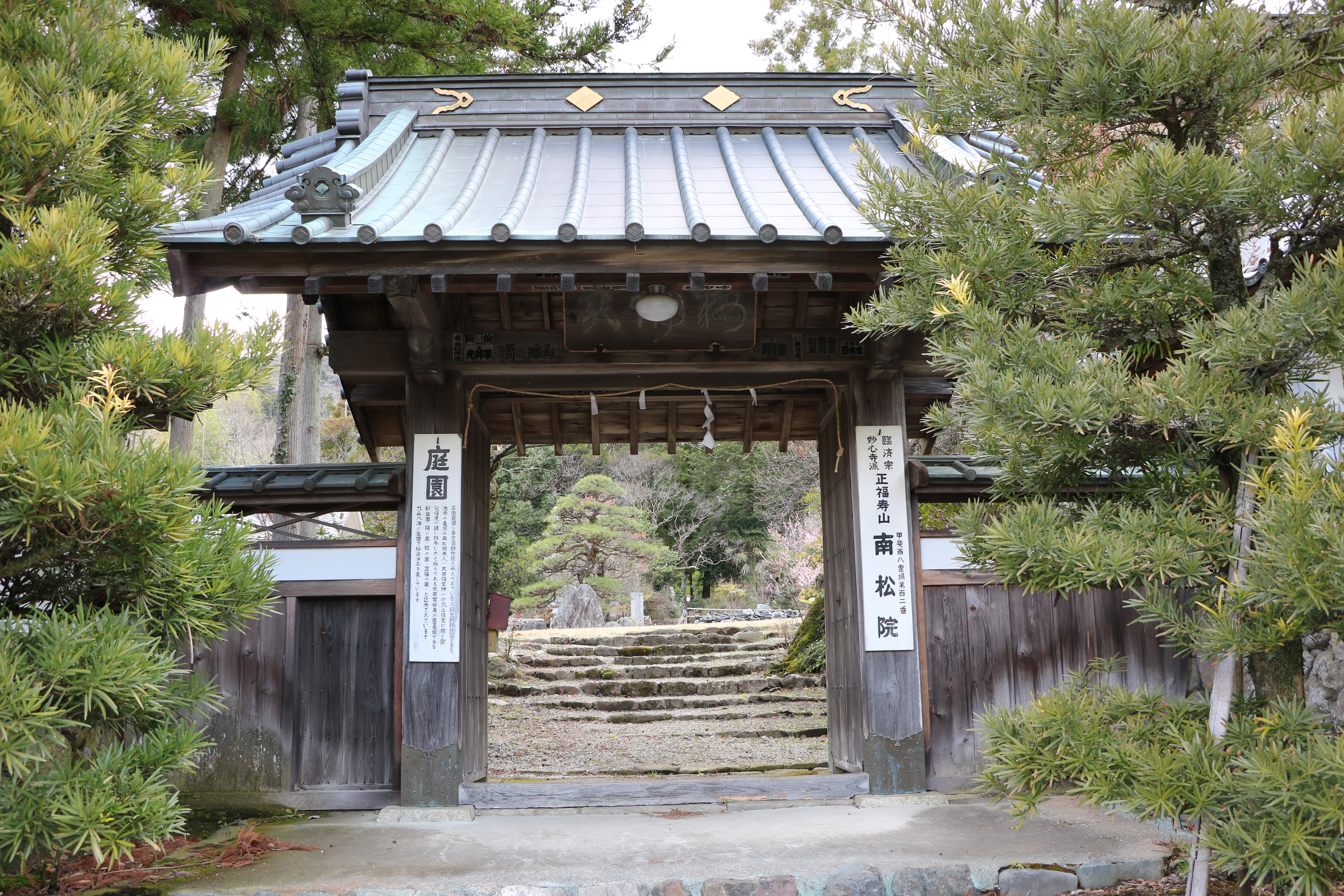 Nanshoin Temple Main Gte.